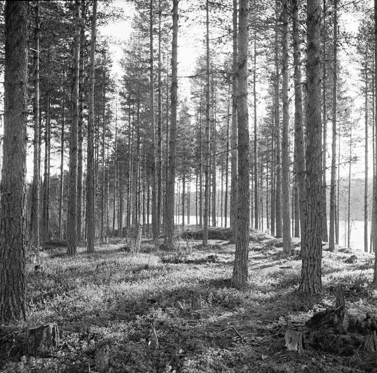 One of the grave mounds on the esker island of Långön in lake Hotingsjön, Ångermanland, Sweden.